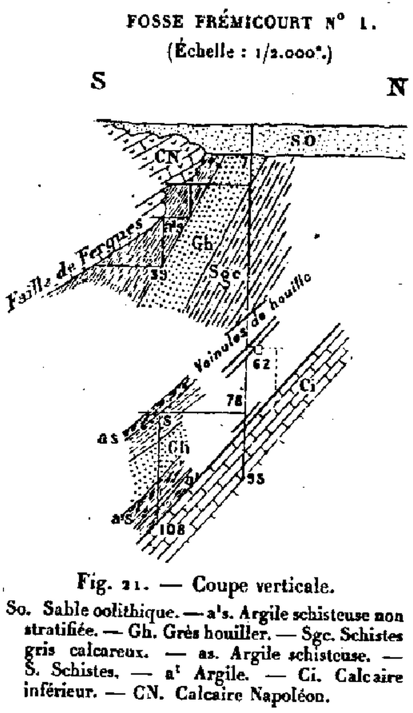 Pit Frémicourt n° 1, Pas-de-Calais, France.